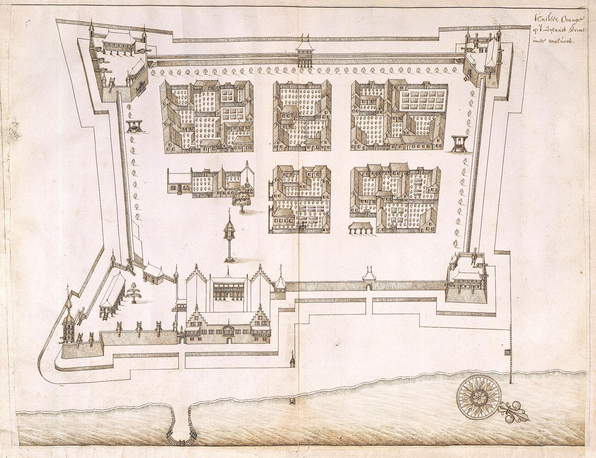 According to the Leupe catalogue (NA), the original title reads: t Casteel Orange op 't Eylandt Ternate in de Molucos. Note in the Leupe catalogue reads:Behoort bij het rapport van Arnold de Vlamingh van Outshoorn. The edges have been reinforced. Notes on reverse: 122 [should be the folio number in the OBP volume] / 668 u.